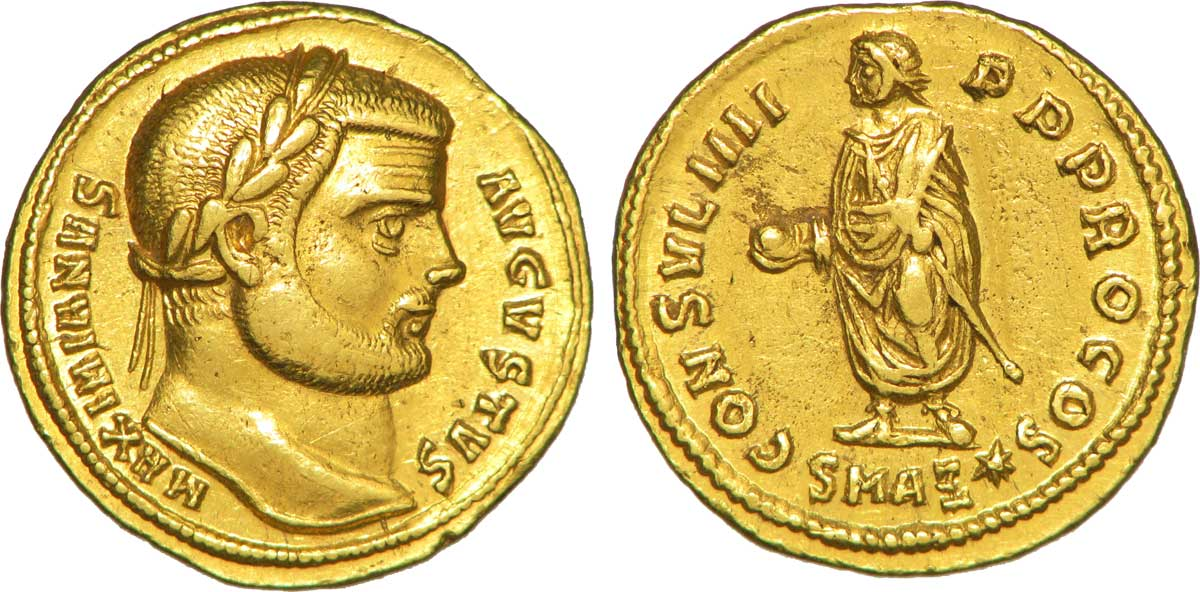 Aureus à l'effigie de Maximien Hercule Date : 294-295 Le revers nous montre Maximien Hercule avec des attributs civils comme un citoyen en charge, un sénateur, le premier d’entre eux. Il est représenté comme “Rector Orbis” ou le sauveur du monde, attitude qui se rencontre déjà sur des aurei de Rome d’Antonin le Pieux pour le quatrième consulat associé à la quinzième puissance tribunitienne en 151-152